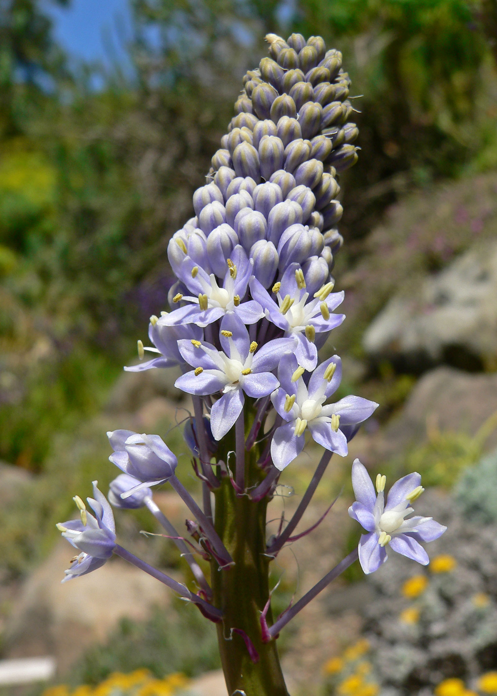 Scilla natalensis at the University of California Botanical Garden, Berkeley, California